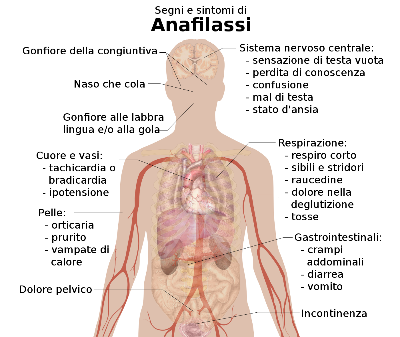 Signs and symptoms of anaphylaxis. References and further description is found at: Anaphylaxis#Signs and symptoms